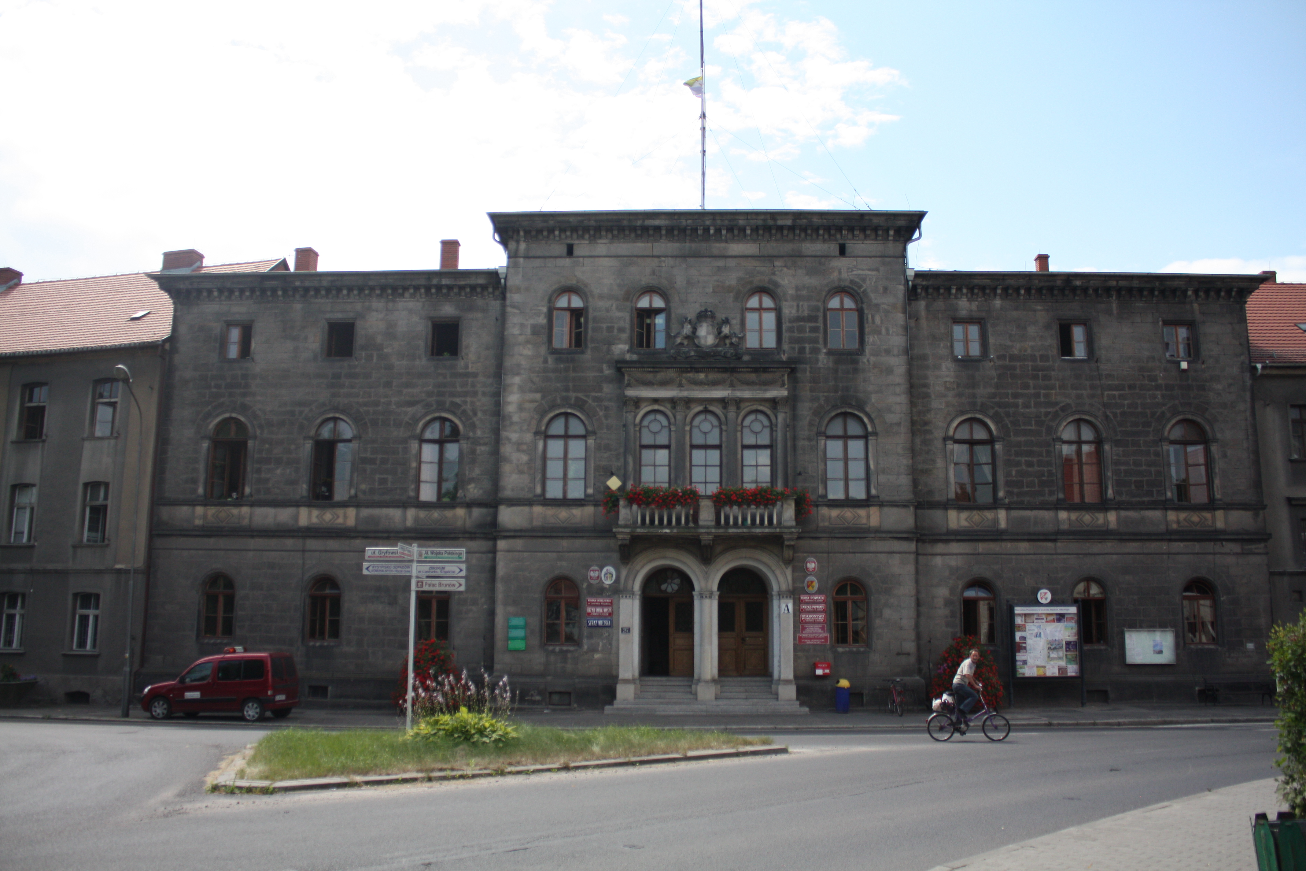 This photo of Lower Silesian Voivodeship was taken during Wikiexpedition 2013 set up by Wikimedia Polska Association.You can see all photographs in category Wikiekspedycja 2013.